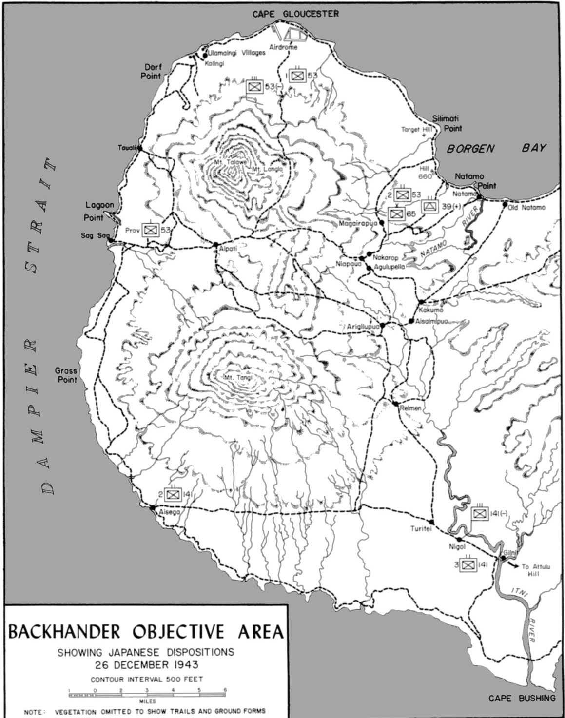 Map of Japanese dispositions around Cape Gloucester, late 1943